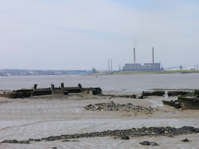 The remains of Nore Army Fort. These concrete foundations and short metal stumps are all that remain of Nore Army Fort. Originally similar in construction to Shivering Sands fort TR1382 and Red Sands fort TR0779and was located in TQ8880. The fort was deemed a danger to shipping when a vessel collided with one of its towers shortly after it was also damaged in a storm. It was dismantled in 1959, with the concrete foundations being transported to and left here near Cliffe. The power station in the distance is Tilbury power station.